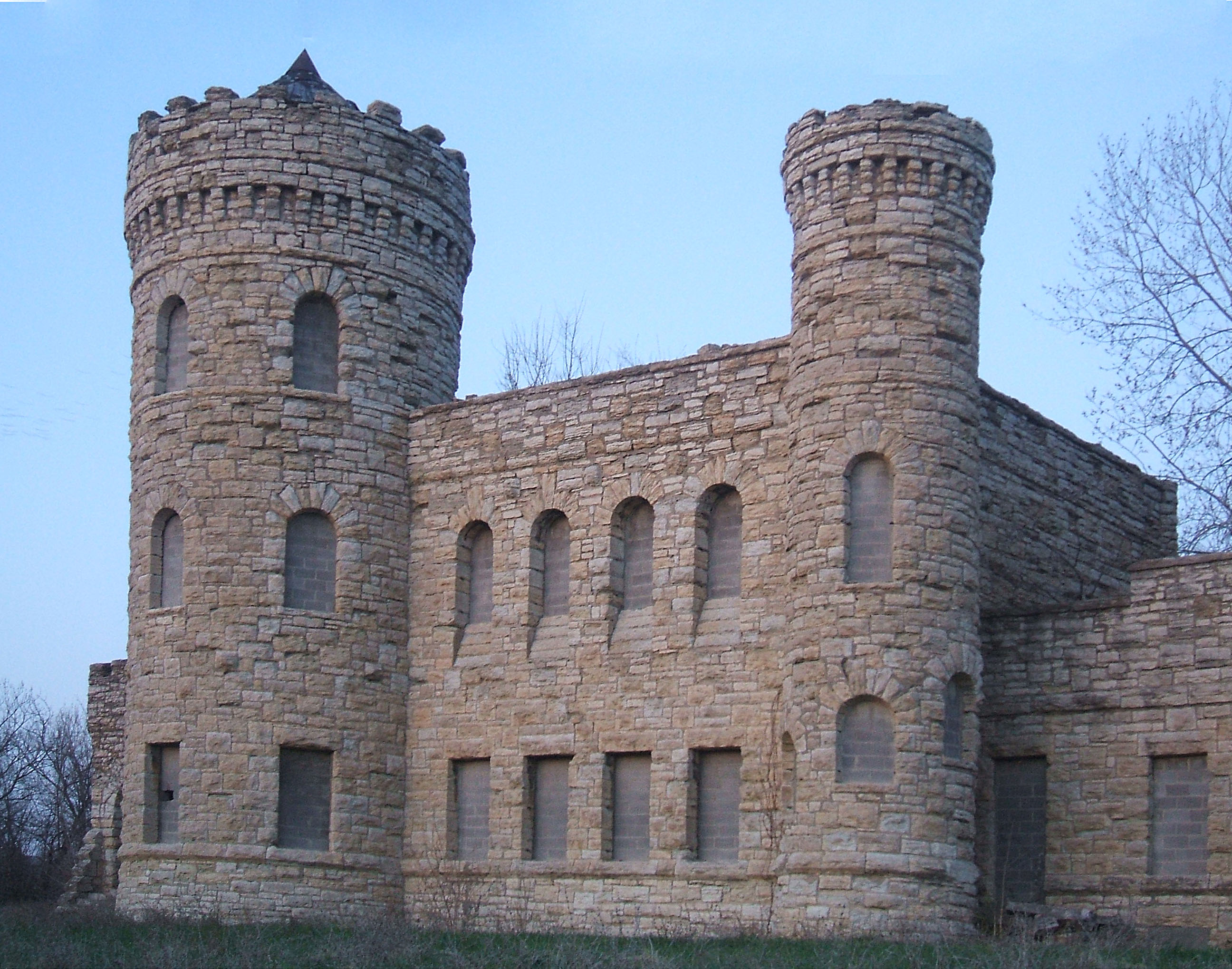 Front of the Jackson County Jail, located at 217 N. Main Street in Independence, Missouri, United States. Along with a related marshal's house, it is listed on th National Register of Historic Places.